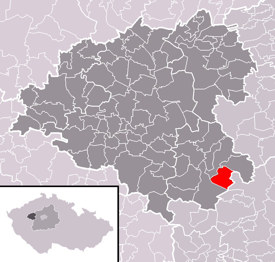 Location of Račice municipality within Rakovník District and (identical) administrative area of Rakovník as a Municipality with Extended Competence.